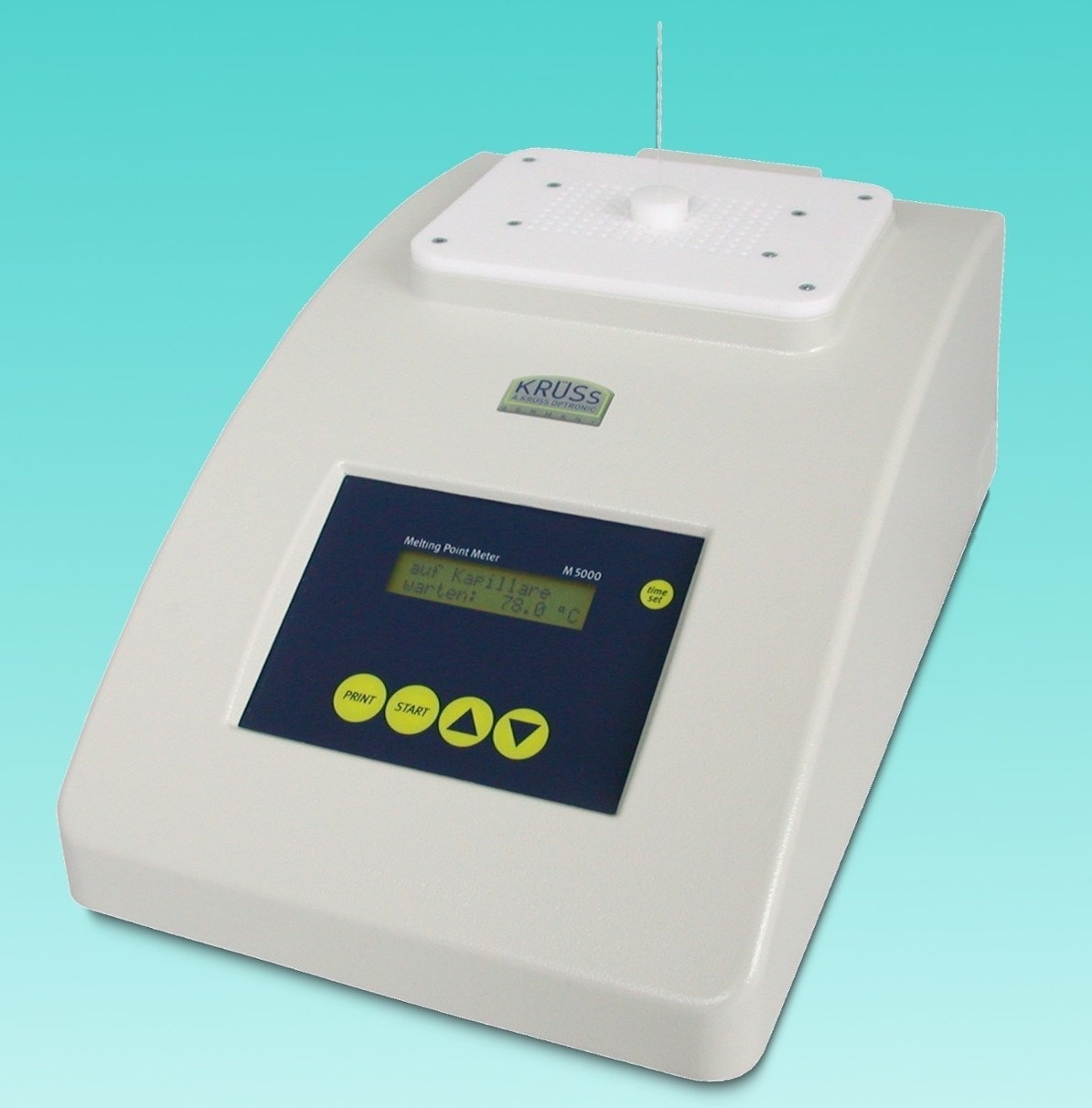 Melting-Point Meter Krüss M5000